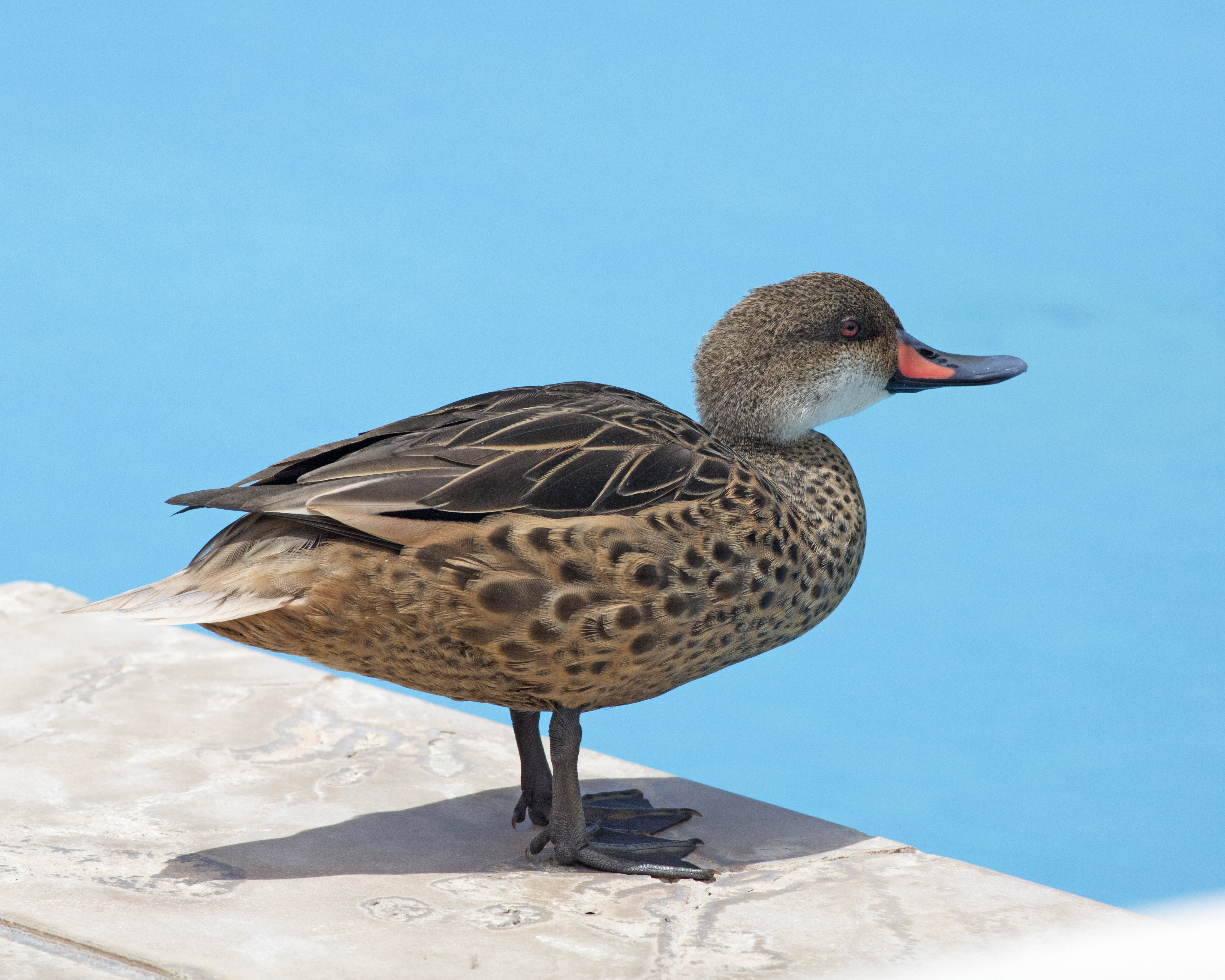 White-cheeked Pintail Anas bahamensis Anas bahamensis galapagensis 5th. August 2014 Twin Craters, Santa Cruz, Galapagos PM0A2577